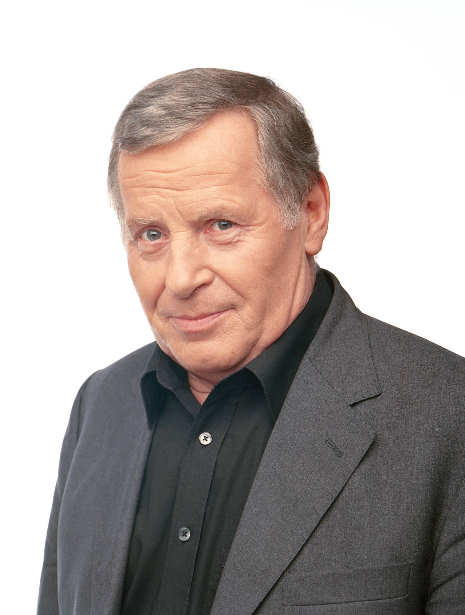 Lothar Bisky